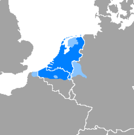 Dutch language map